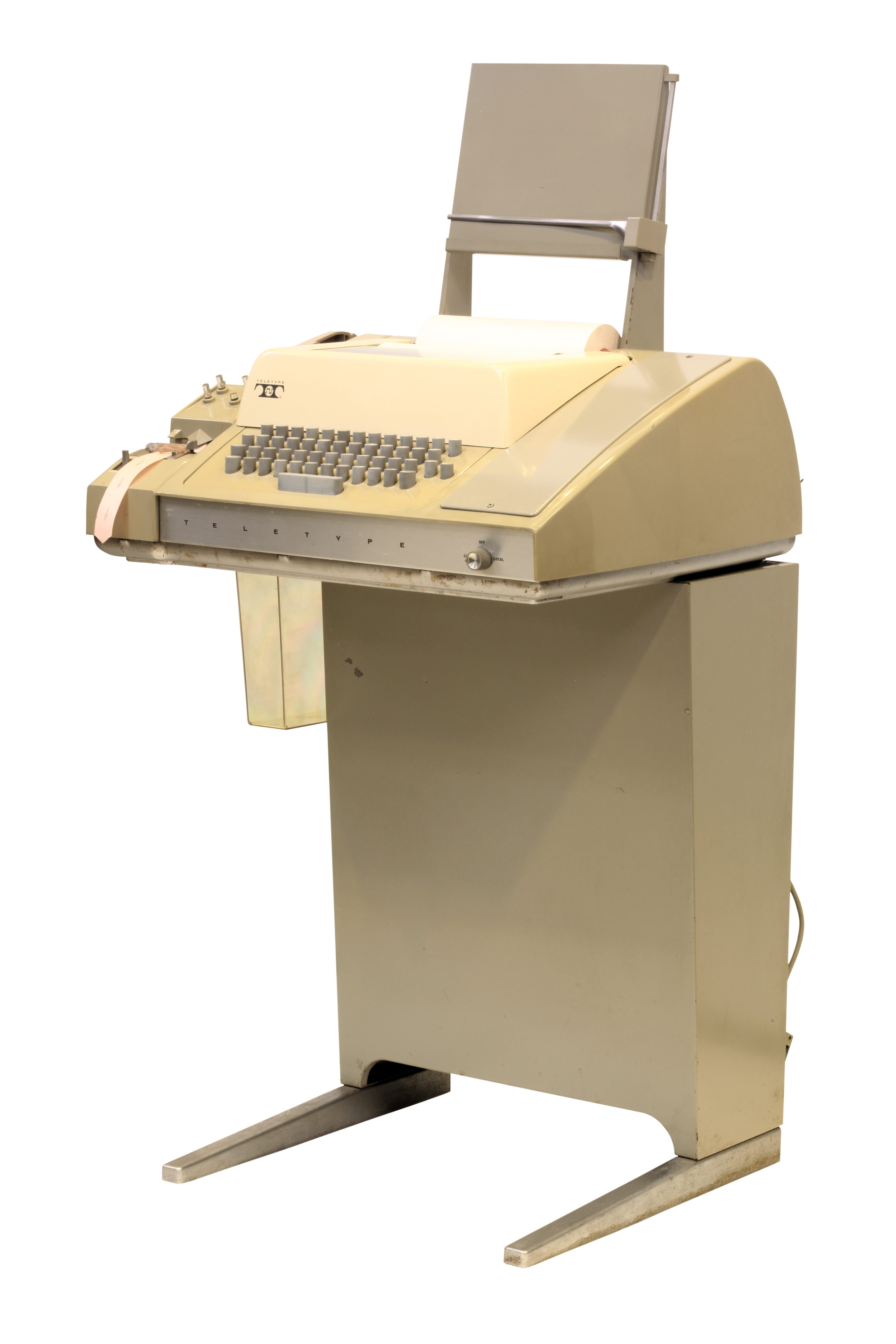 ASR-33 Teletype. On display at the Musée Bolo, EPFL, Lausanne.